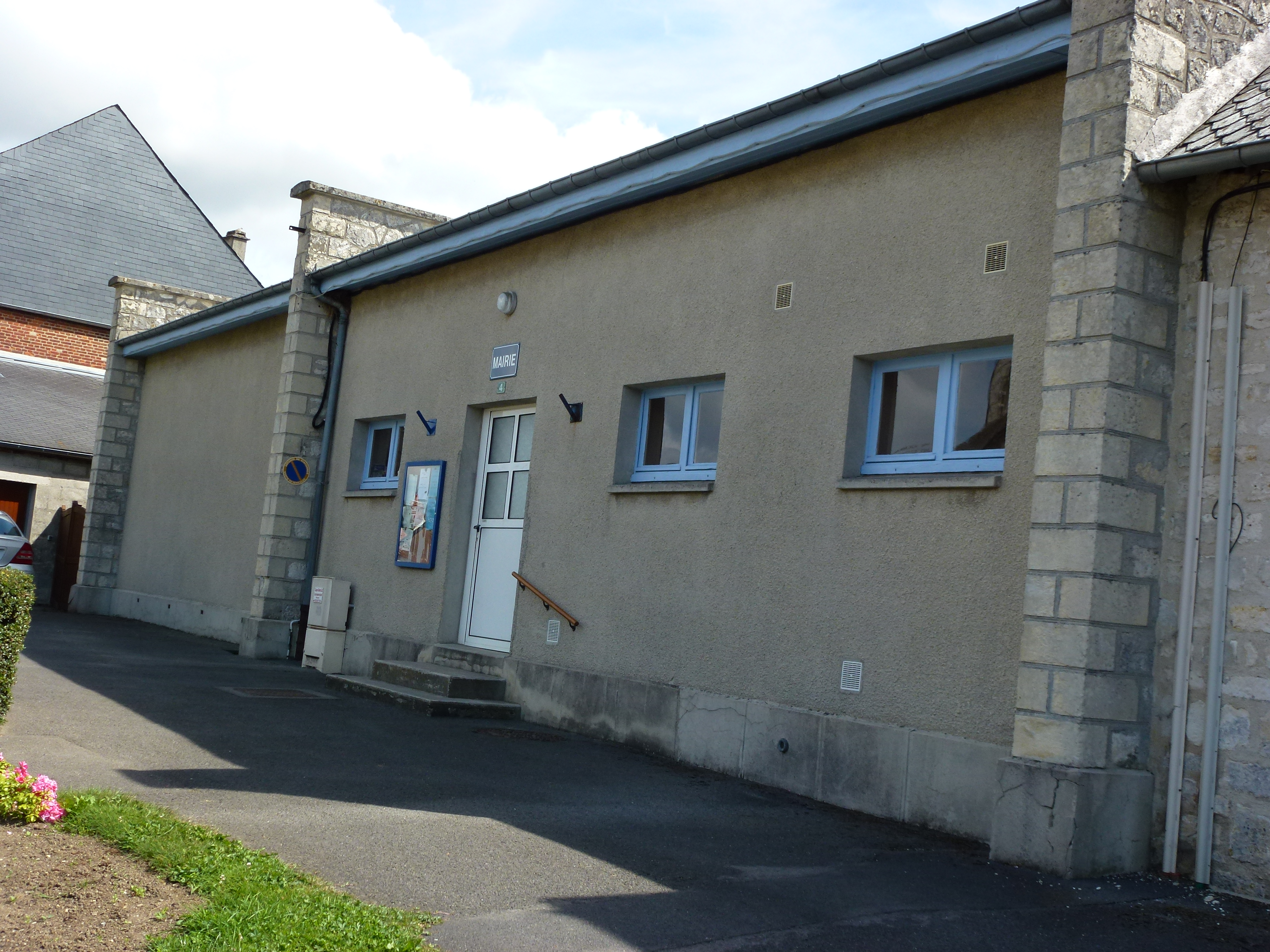 Logny-lès-Aubenton (Aisne) mairie